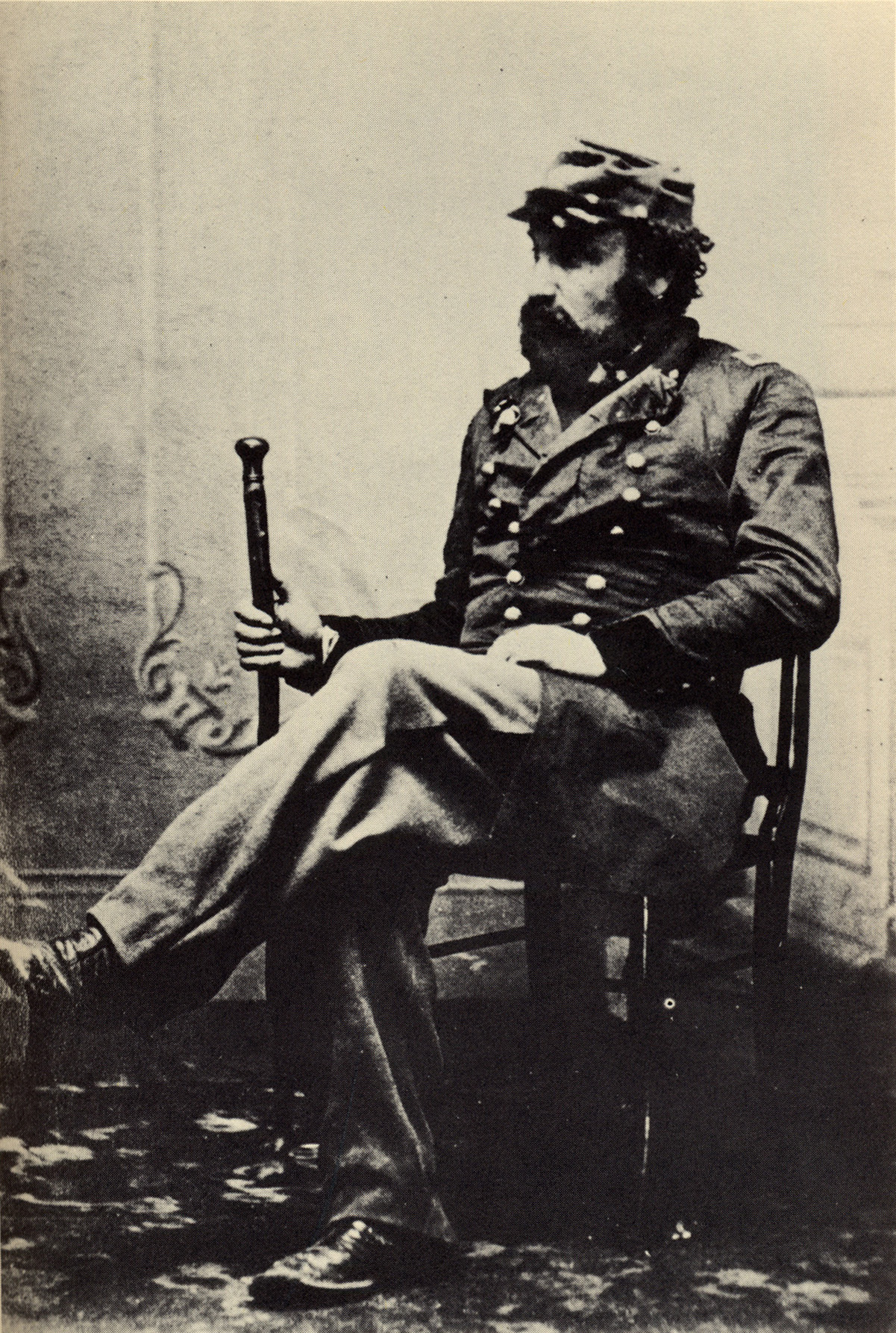 Image of His Imperial Majesty Emperor Norton I, also known as Joshua A Norton.